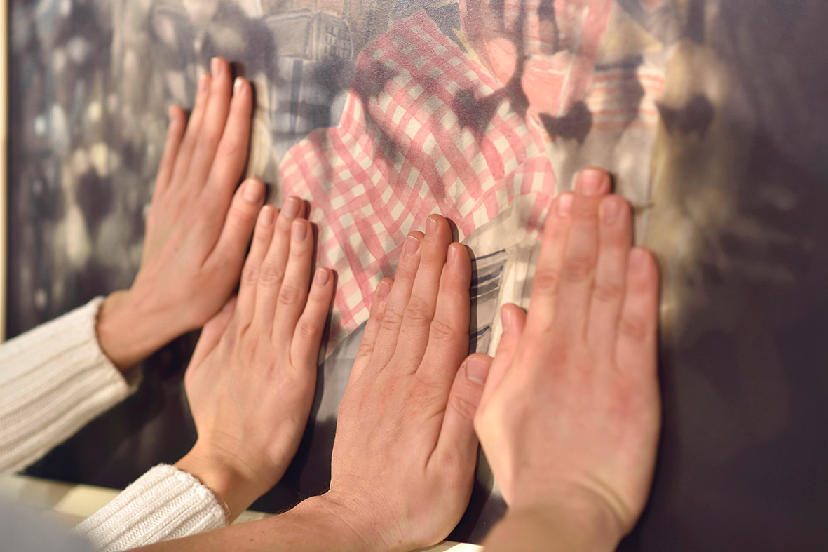 Interaction on the exhibition "Clean&Wrong", Museum of Contemporary Art, Zagreb, Croatia